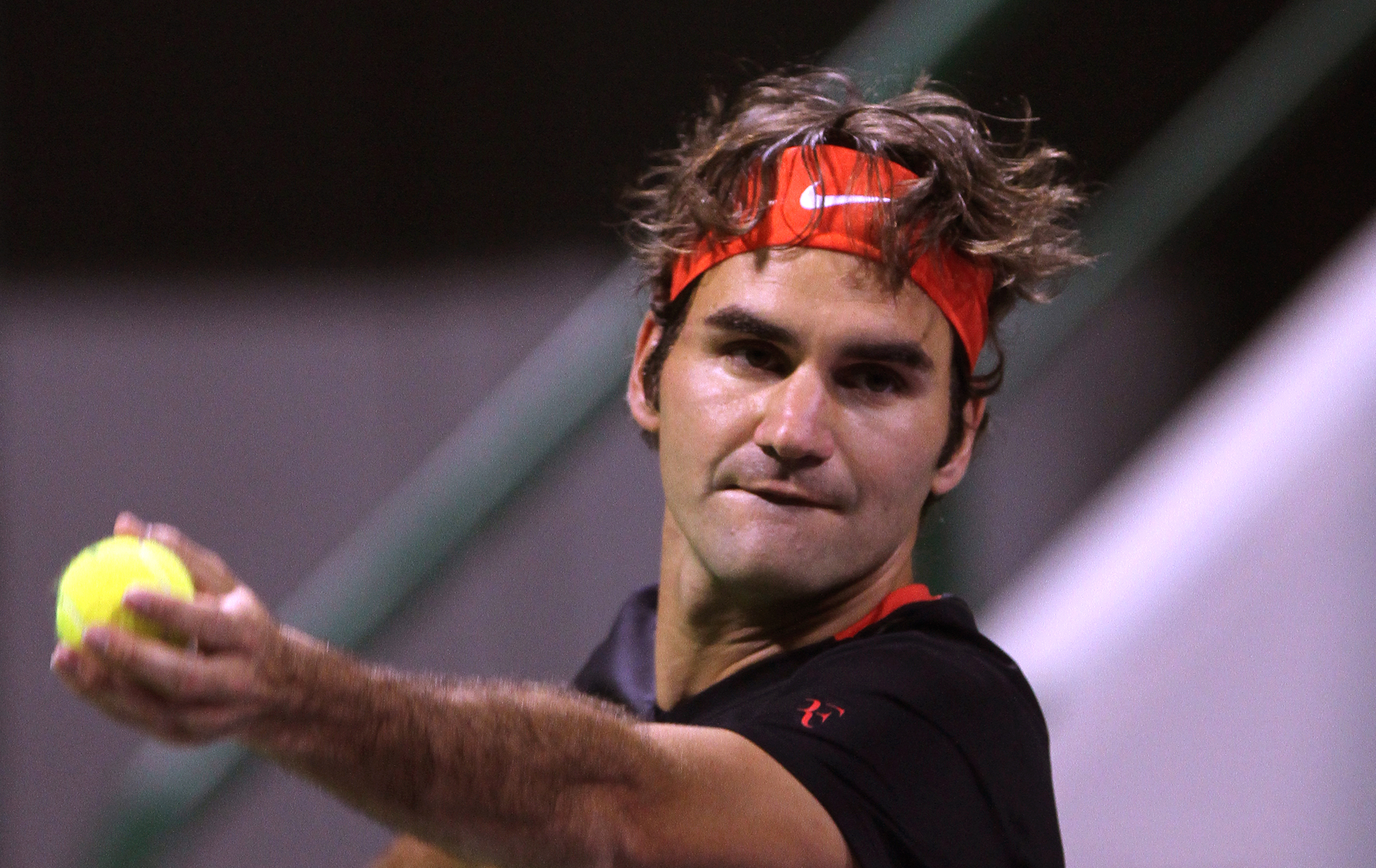 Swiss tennis ace Roger Federer serves during the Qatar Exxonmobil Open in Doha. Pic by Vinod Divakaran